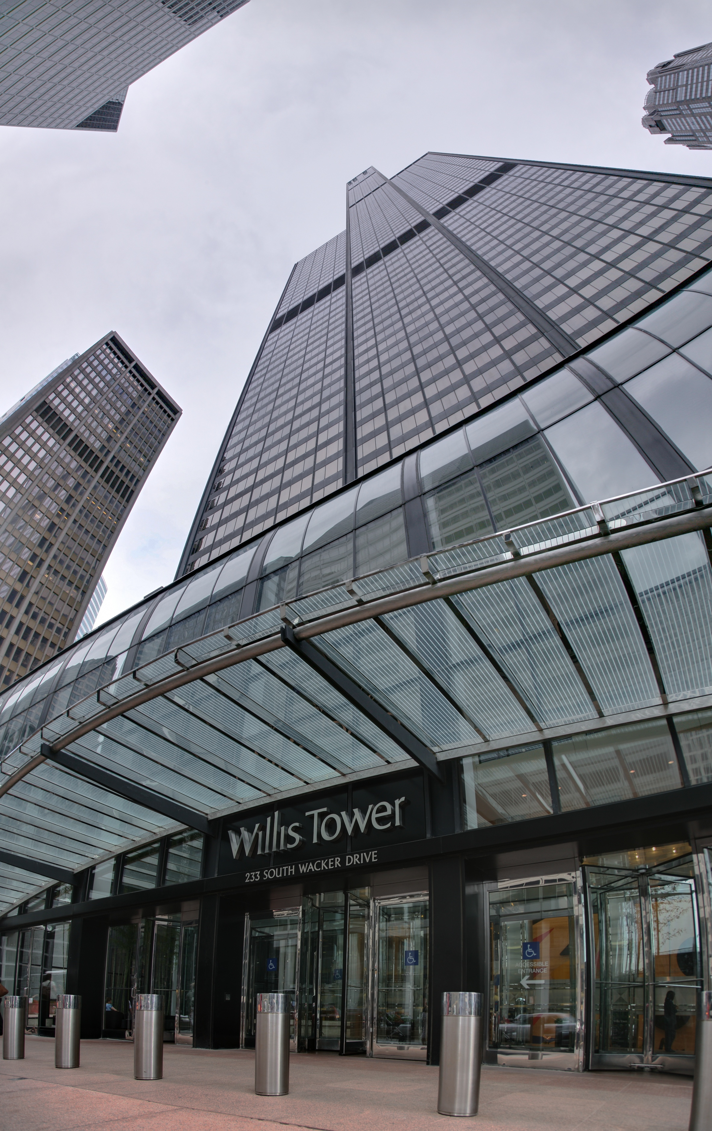 Willis Tower in Chicago This image was created with Hugin.